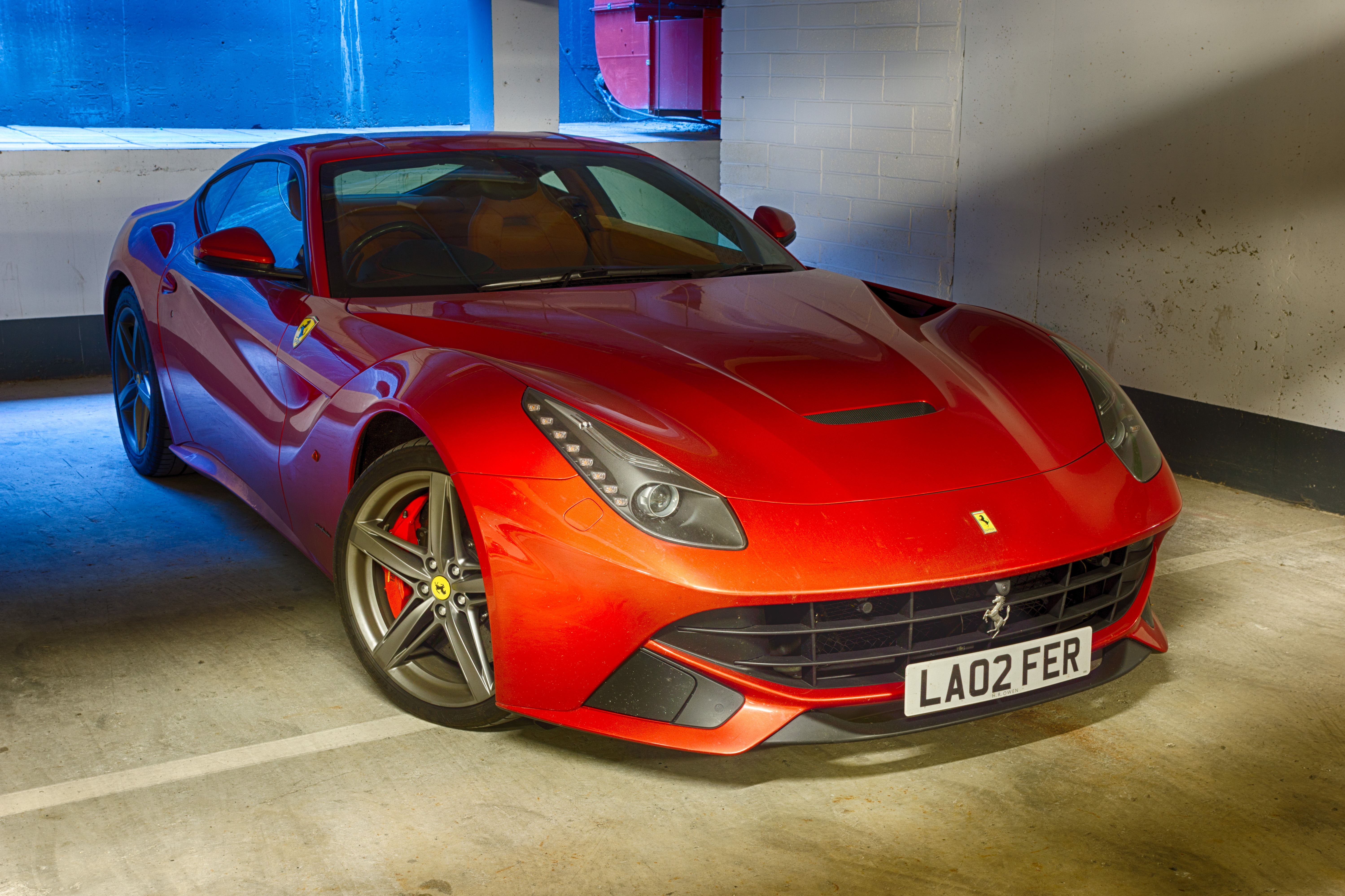 5 exposure HDR merged and tonemapped with Nik HDR Efex Pro.